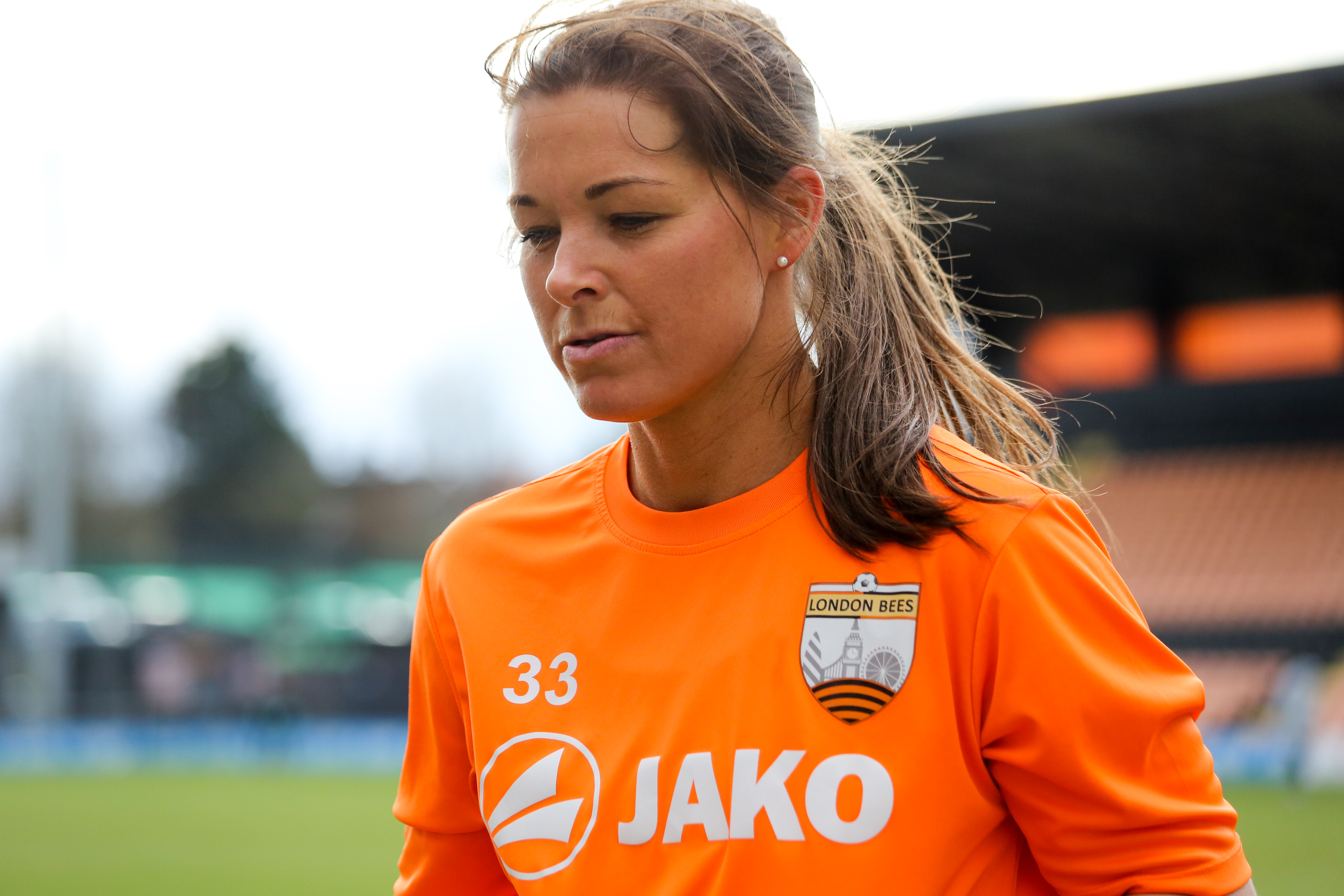 London Bees v Tottenham Hotspur LFC, 10 February 2019 - Rachel Unitt of London Bees before the start of the match.